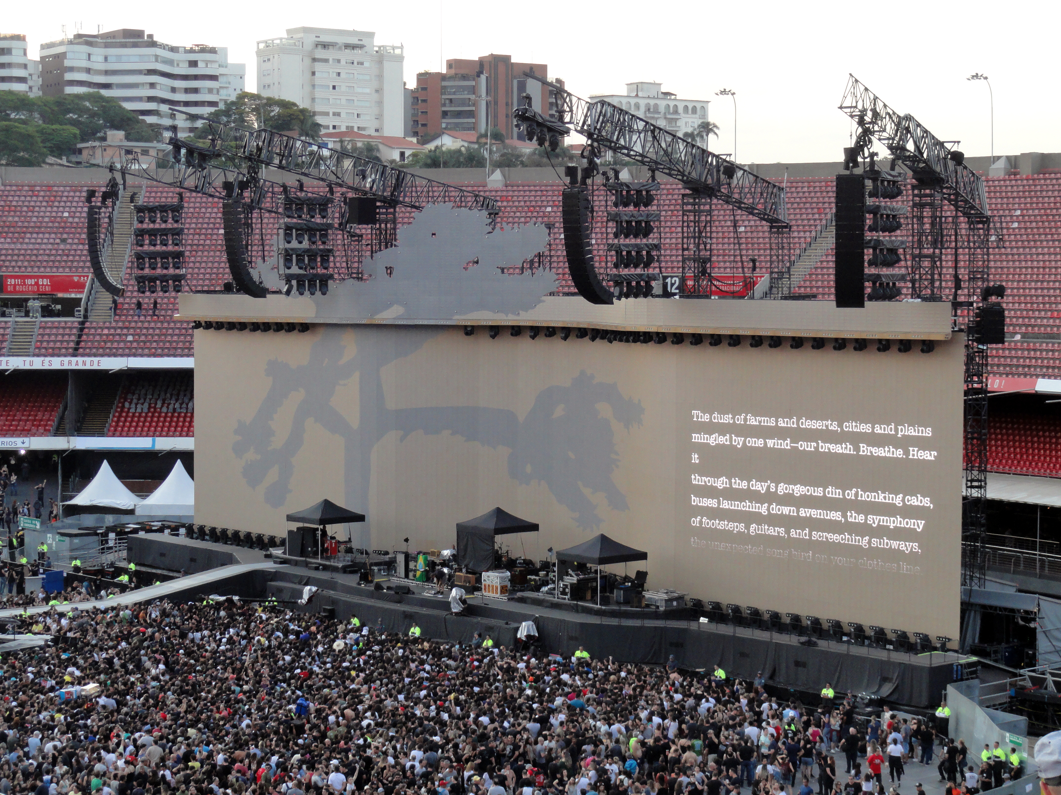 The stage of U2's Joshua Tree Tour 2017 prior to a concert at Morumbi in Sao Paulo, Brazil, on October 19, 2017